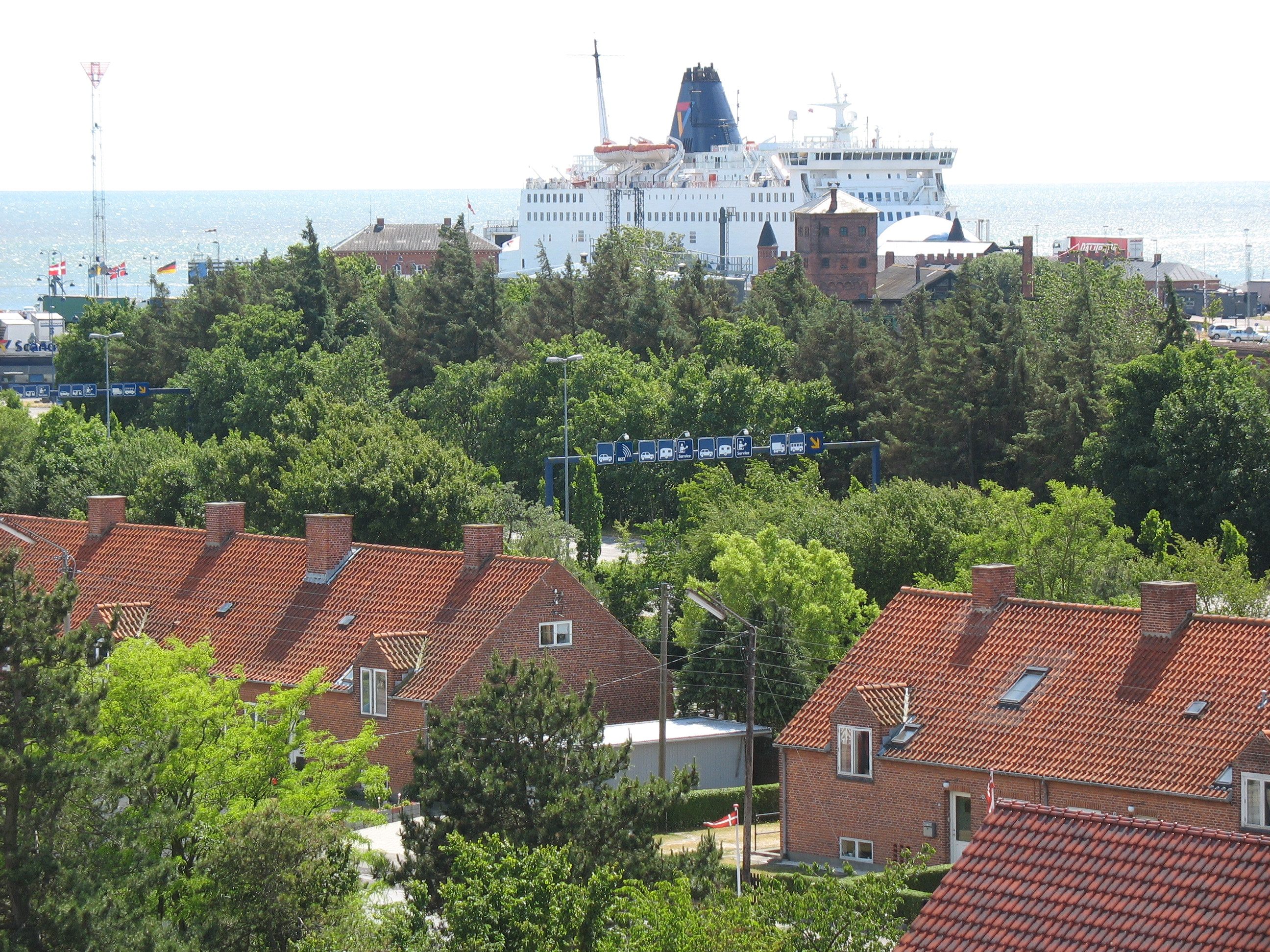 View over the small town "Gedser" located on the Danish island Falster. Gedser is the most southern town in Denmark.